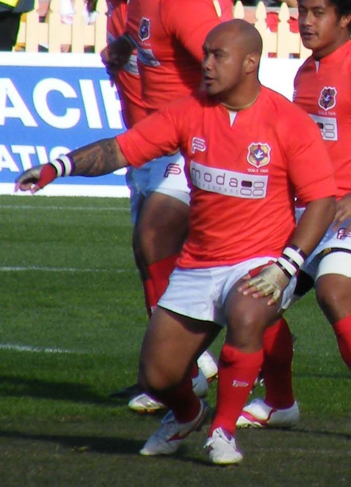 Tonga captain Nili Latu during performing Sipi Tau before Pacific Nations Cup match against Australia A